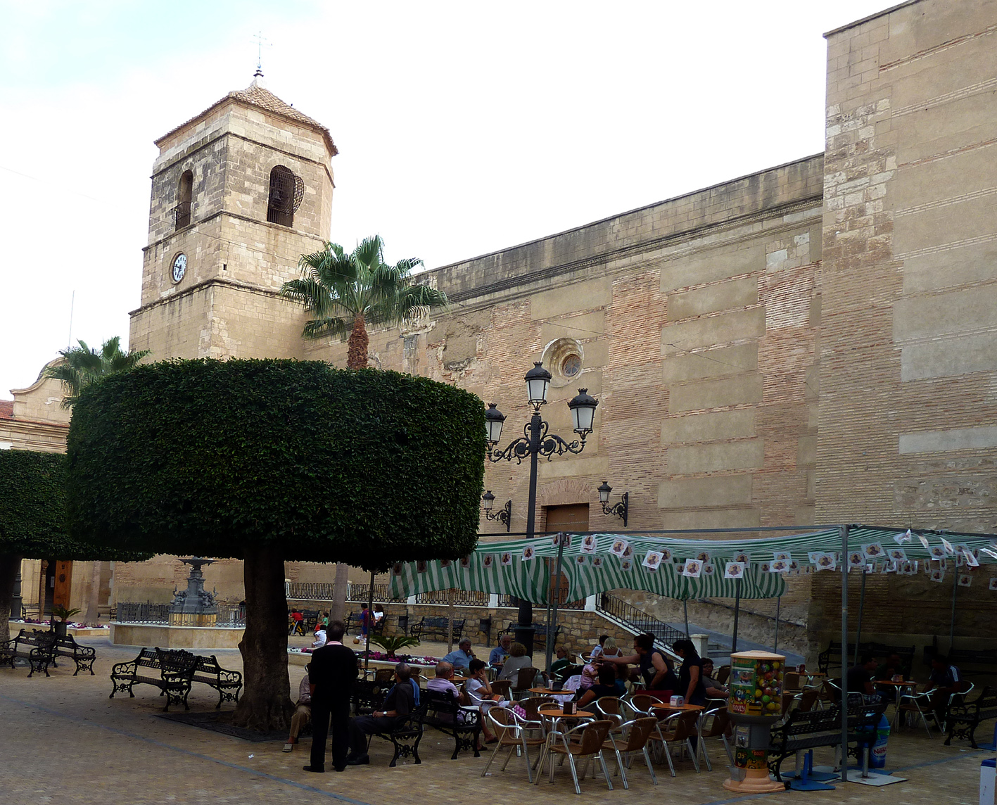 Vera, Spain, the fortified church of the Encarnación, as seen from across the Major Square